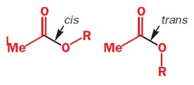 Conformação de ésteres